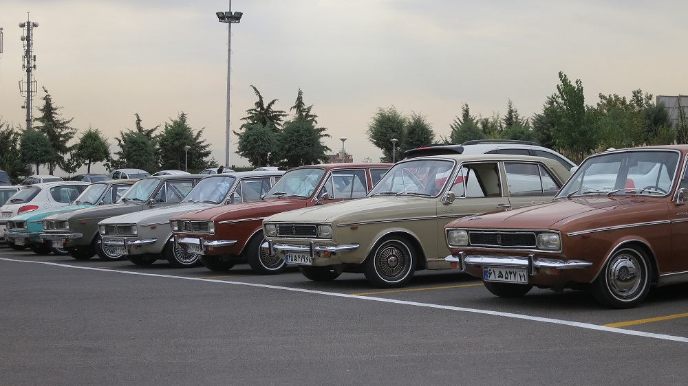 Some older version of the Paykan car (produced in late 1960s to early 1970s, gathered together in northern capital city of Tehran, Iran.